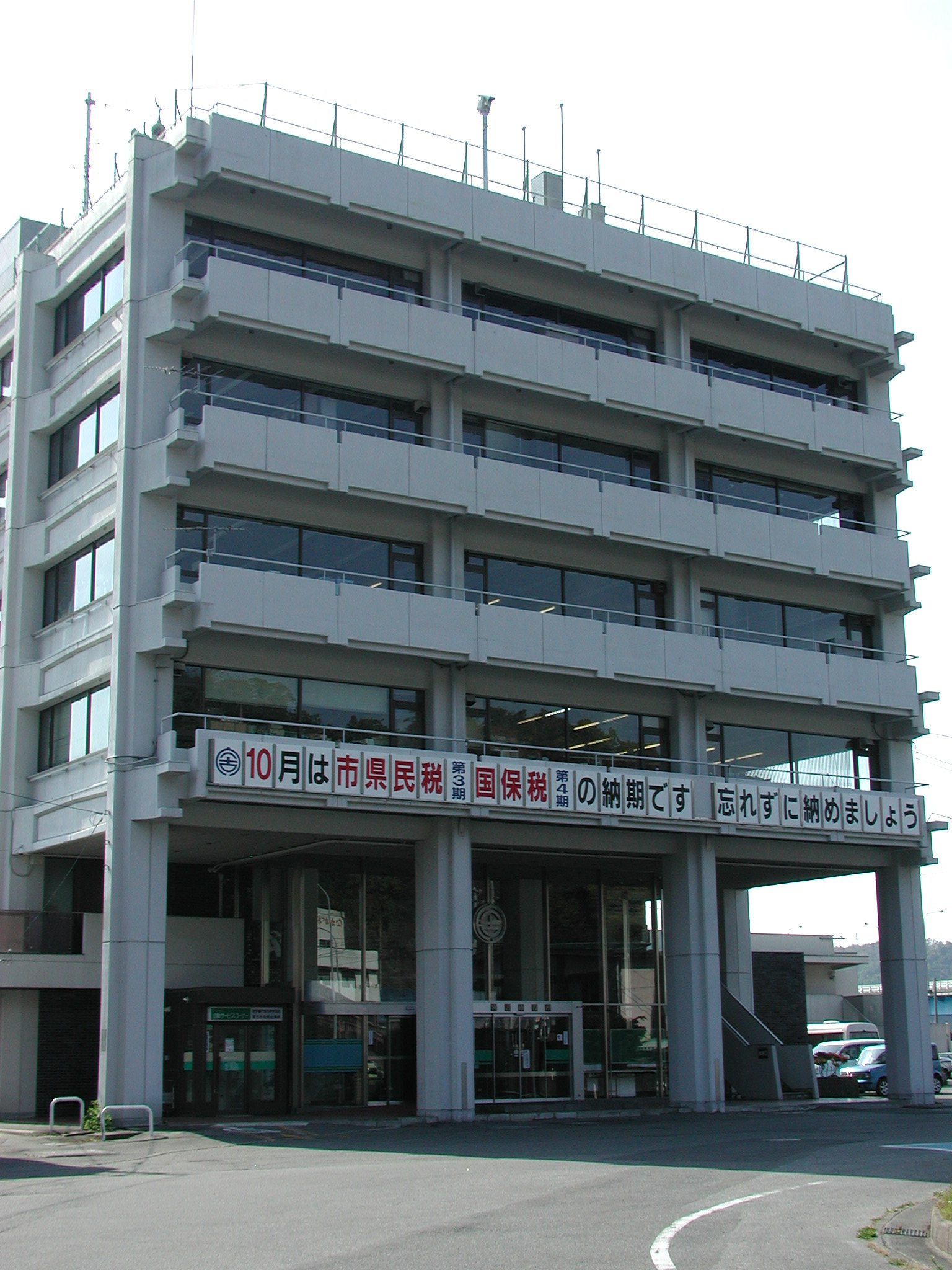 Miyako City Office